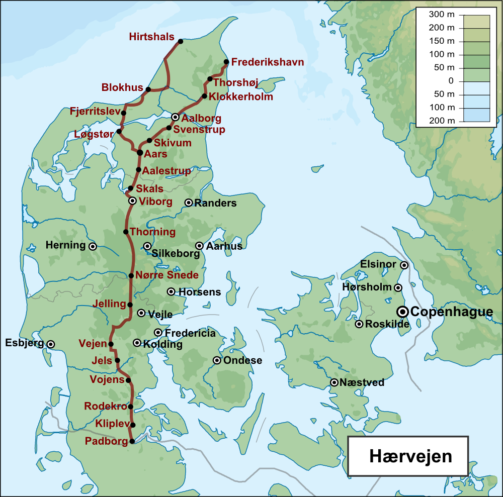 Map of the hiking and pilgrimage way Hærvejen in Denmark